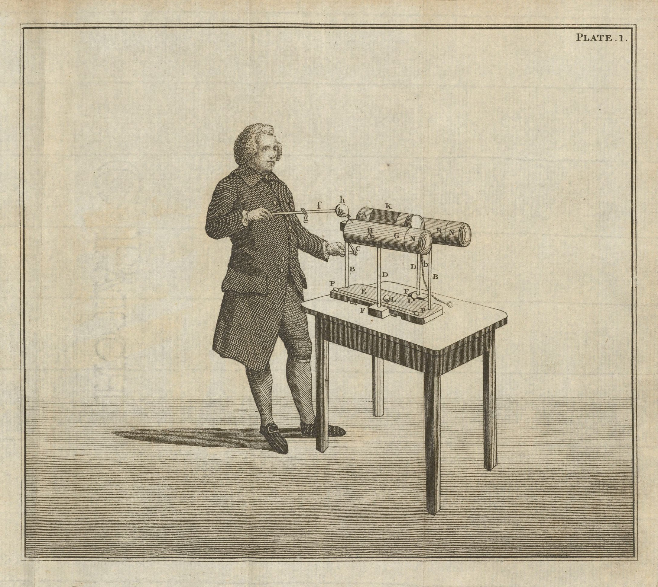 Plate from The description and use of Nairne's patent electrical machine: with the addition of some philosophical experiments and medical observations, published in London for Nairne and Blunt, No. 20, Cornhill, 1783. By Edward Nairne (1726-1806). *90W-164, Houghton Library, Harvard University